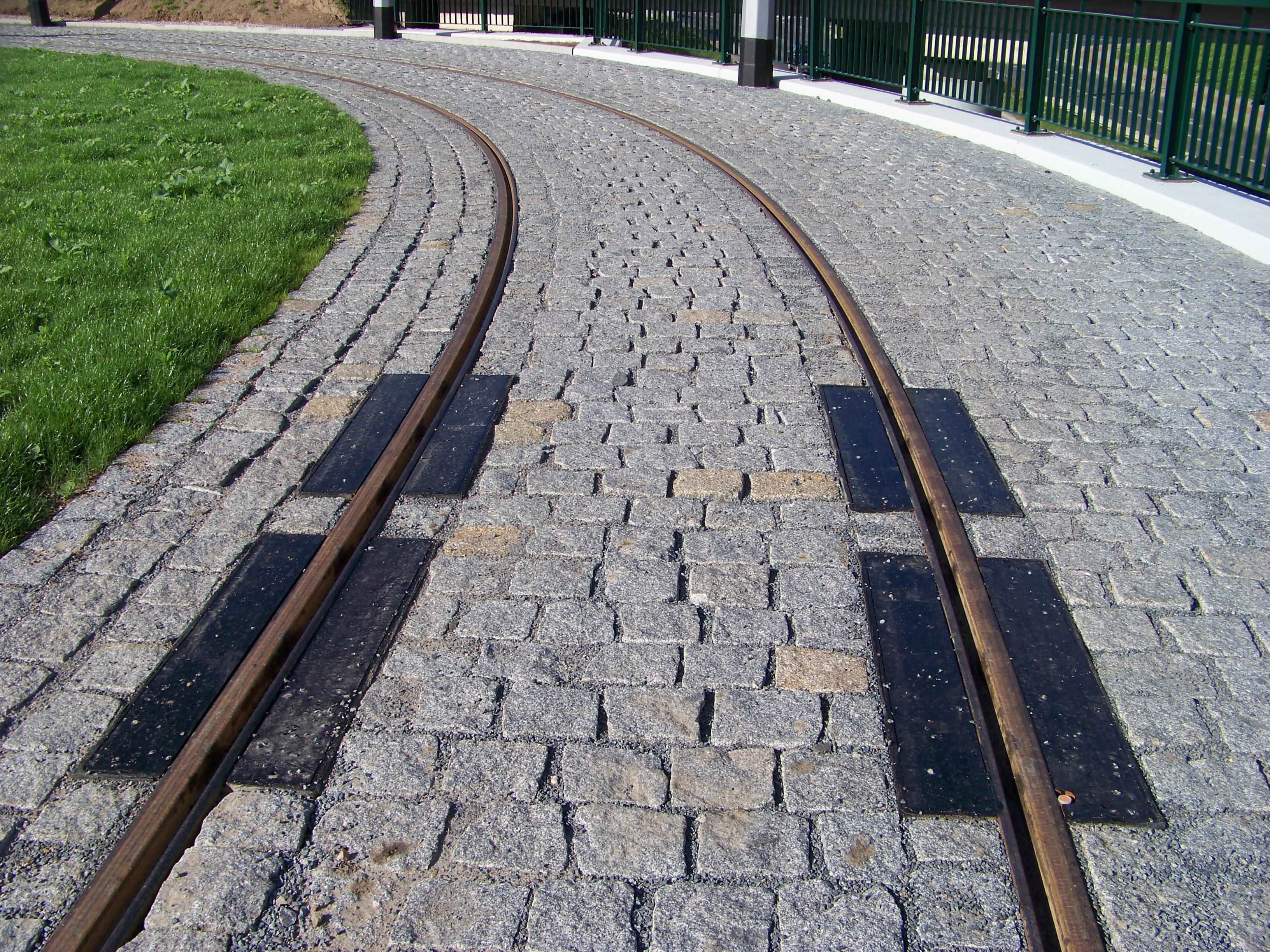 Prague-Dejvice and Bubeneč, the Czech Republic. The new tram loop Podbaba, grease boxes.